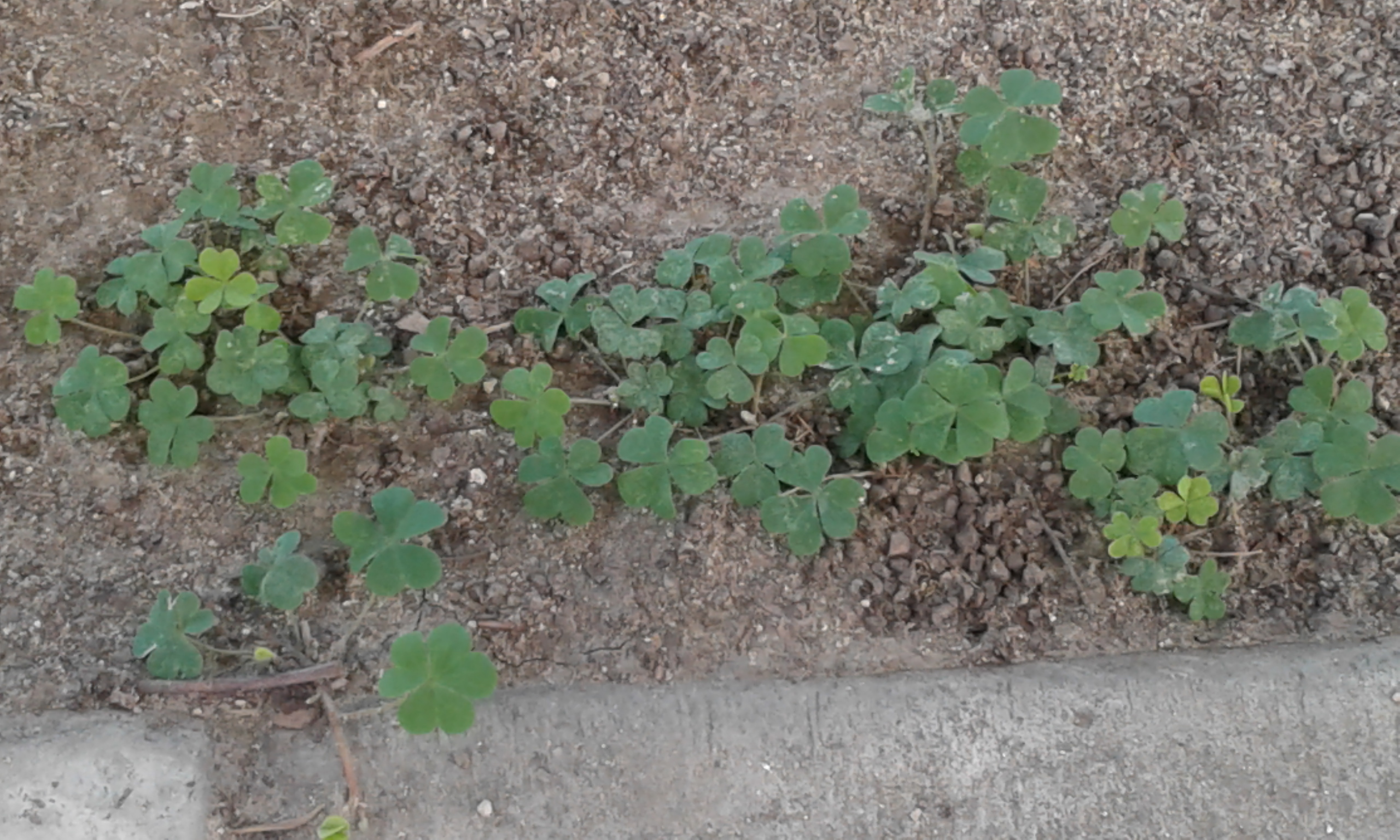 Wild leaf